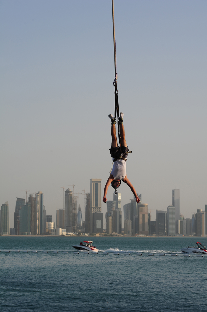 Bungee jumping has never appealed to me, but obviously lots of people do seem to enjoy throwing themselves off of bridges etc. In this case it was a platform suspended over the Arabian Gulf. May 20, 2011.